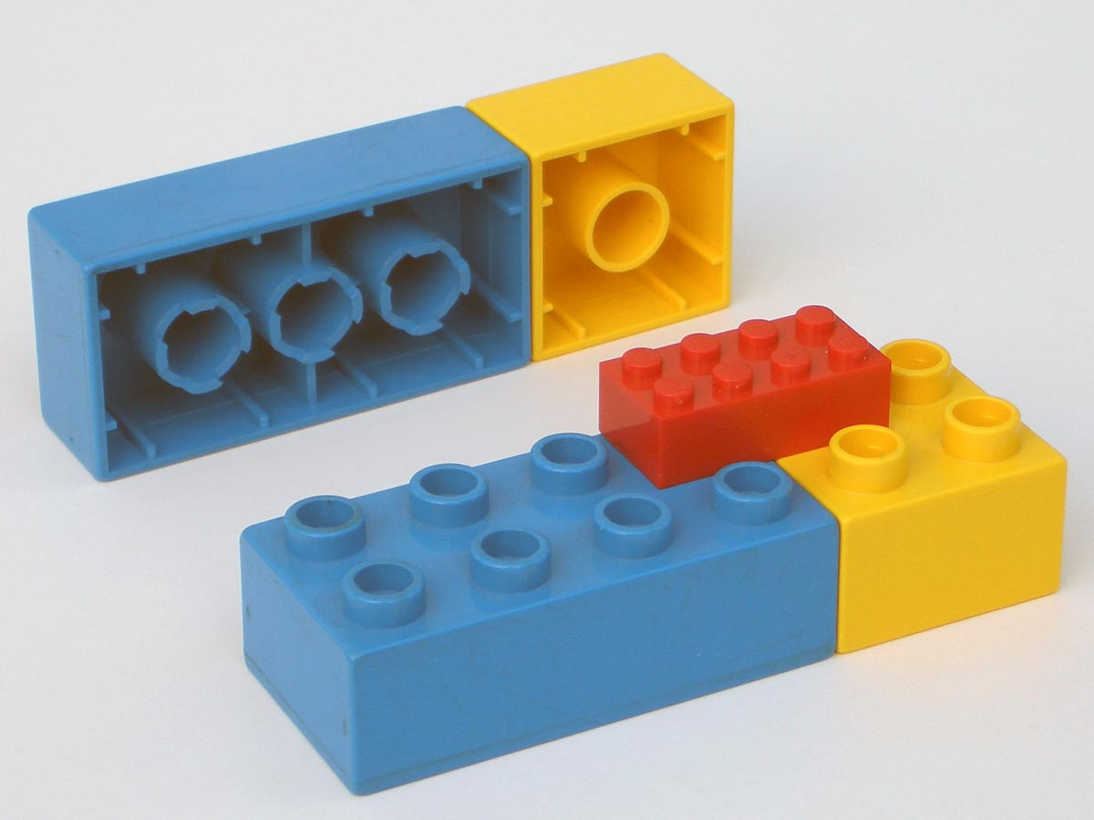 Old blue Duplo bricks, new yellow Duplo bricks and one normal red Lego bricks.